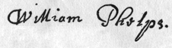 Signature of William Phelps from a legal testament certifying Capt. John Talcot as Treasurer of the Colony of Connecticut.